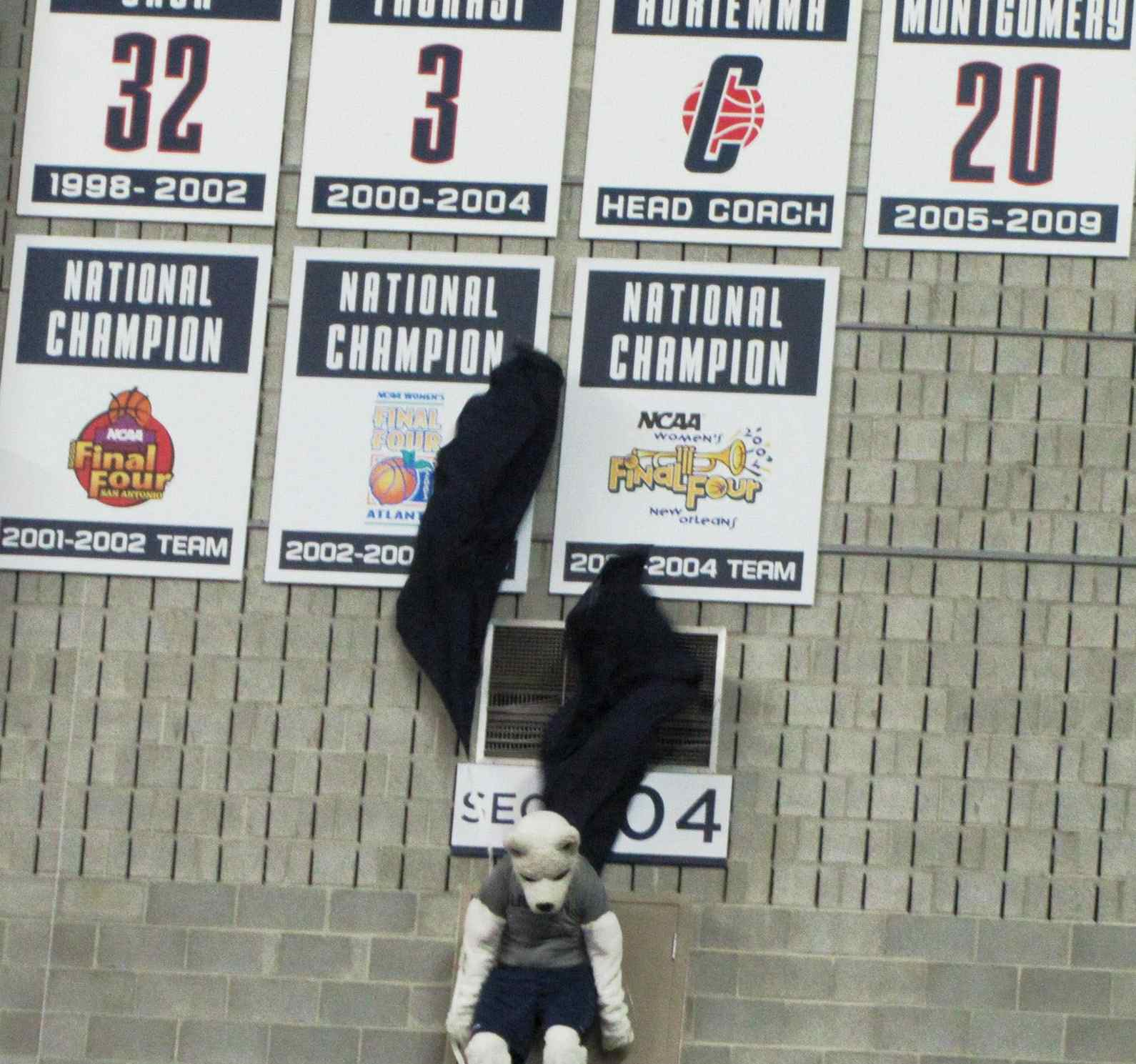 Huskies of Honor additions 29 December 2013 On December 20, 2013, the University of Connecticut inducted two women's basketball team, the National Championship winning teams of 2002–03 and 2003–04 into the Huskies of Honor.